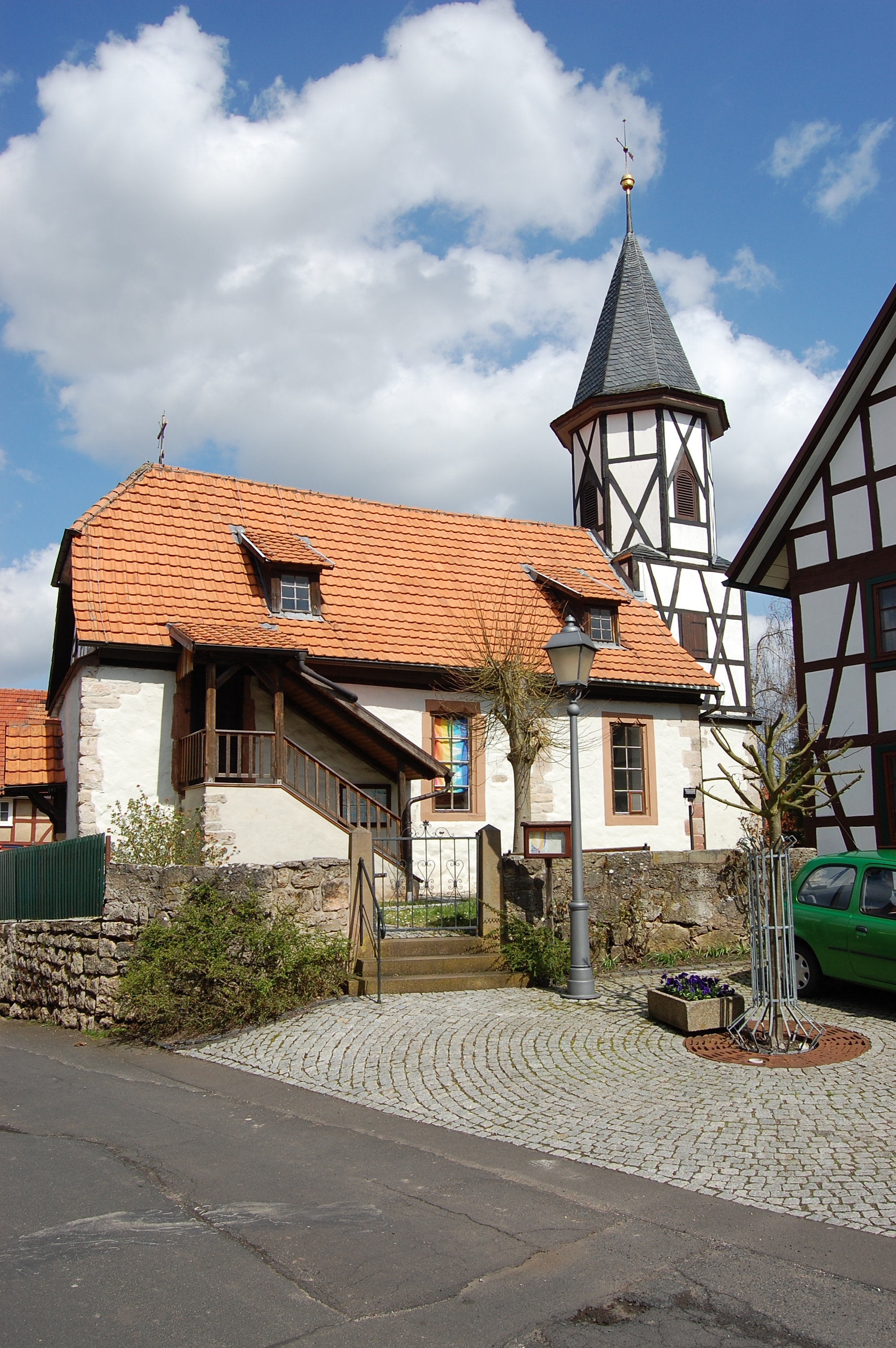 Eisenach, Germany: Church in village Goeringen